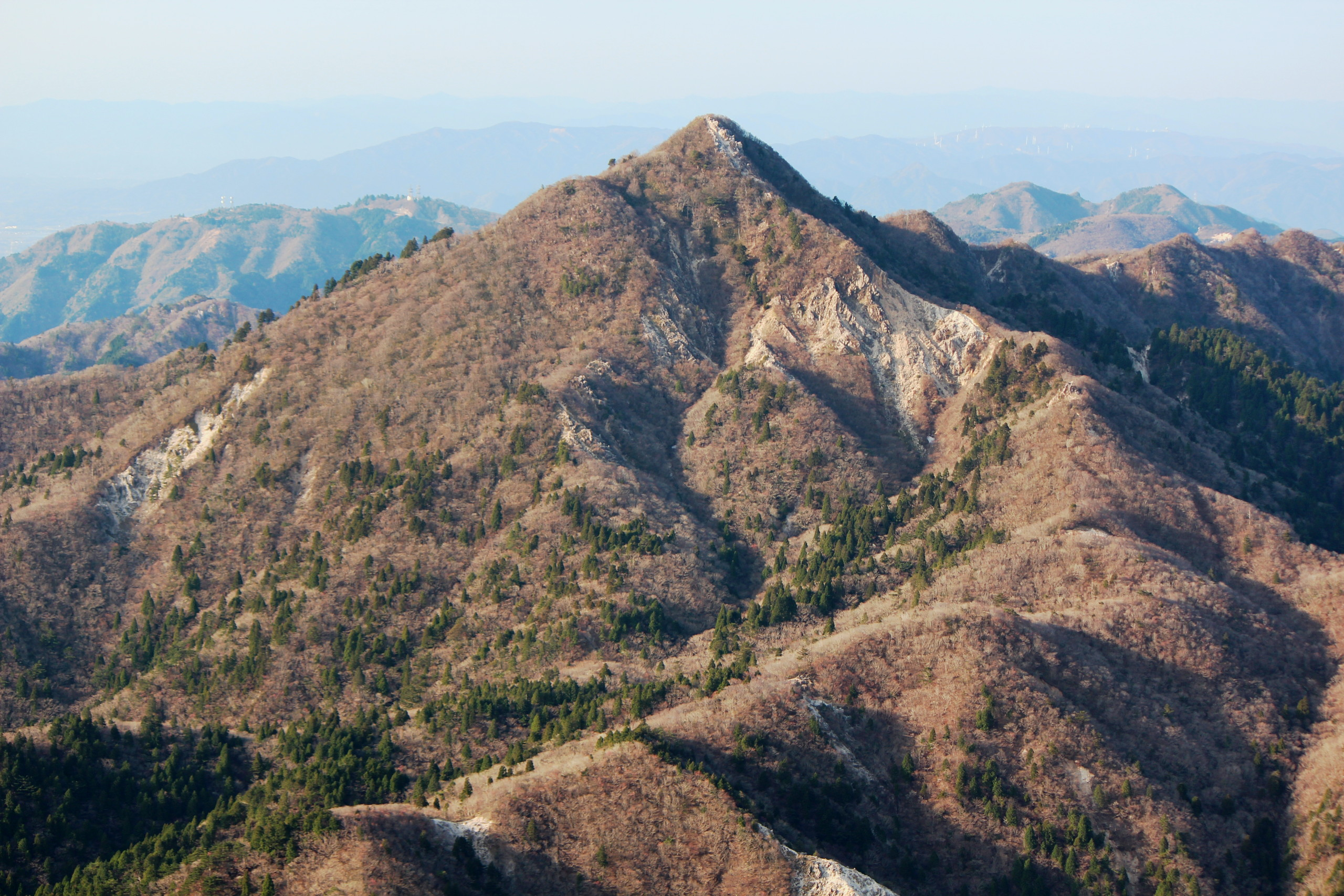 Mount Kama (Suzuka Mountains) from Mount Gozaisho, in Komono, Mie, Japan.